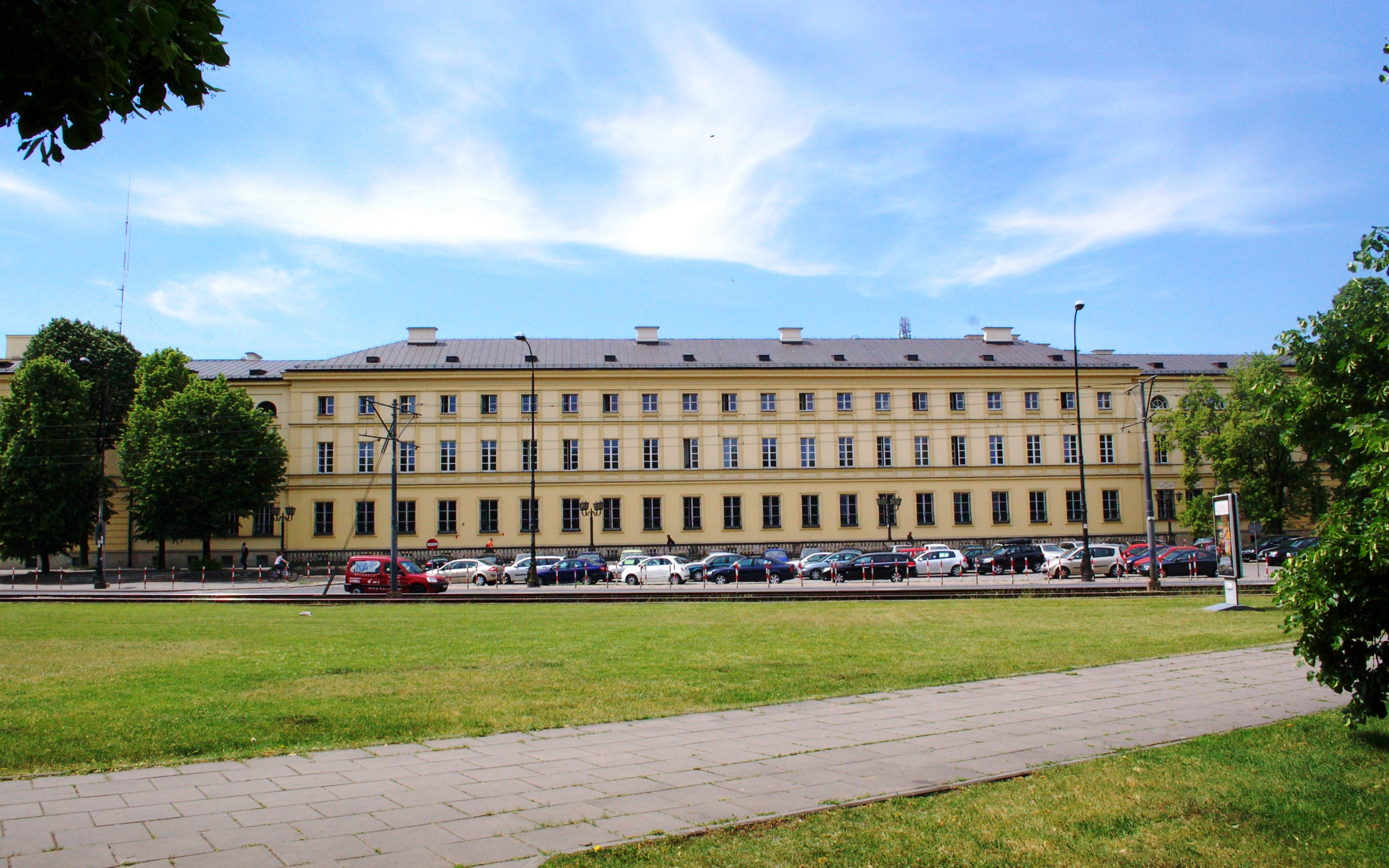 Mostowski Palace, Warsaw, Poland